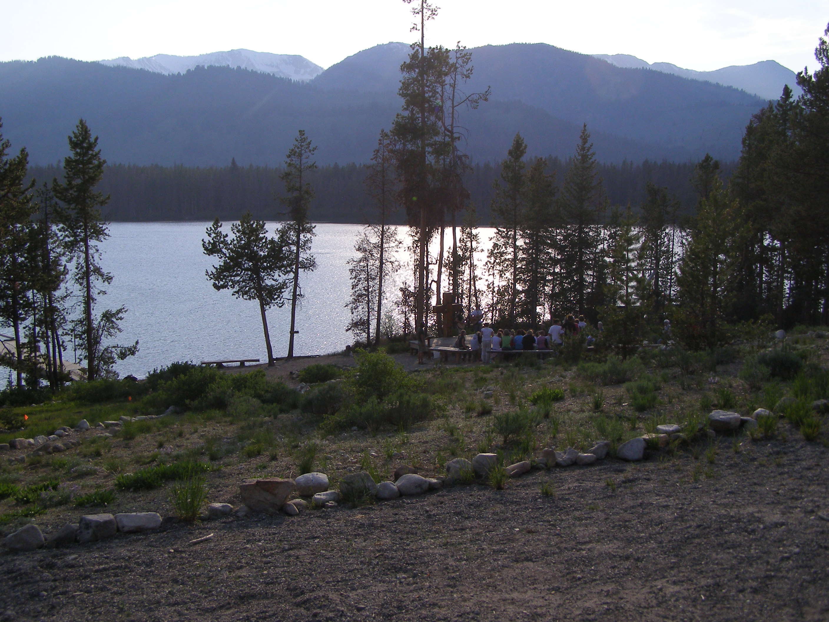 Sawtooth Mountains above Lake Perkins